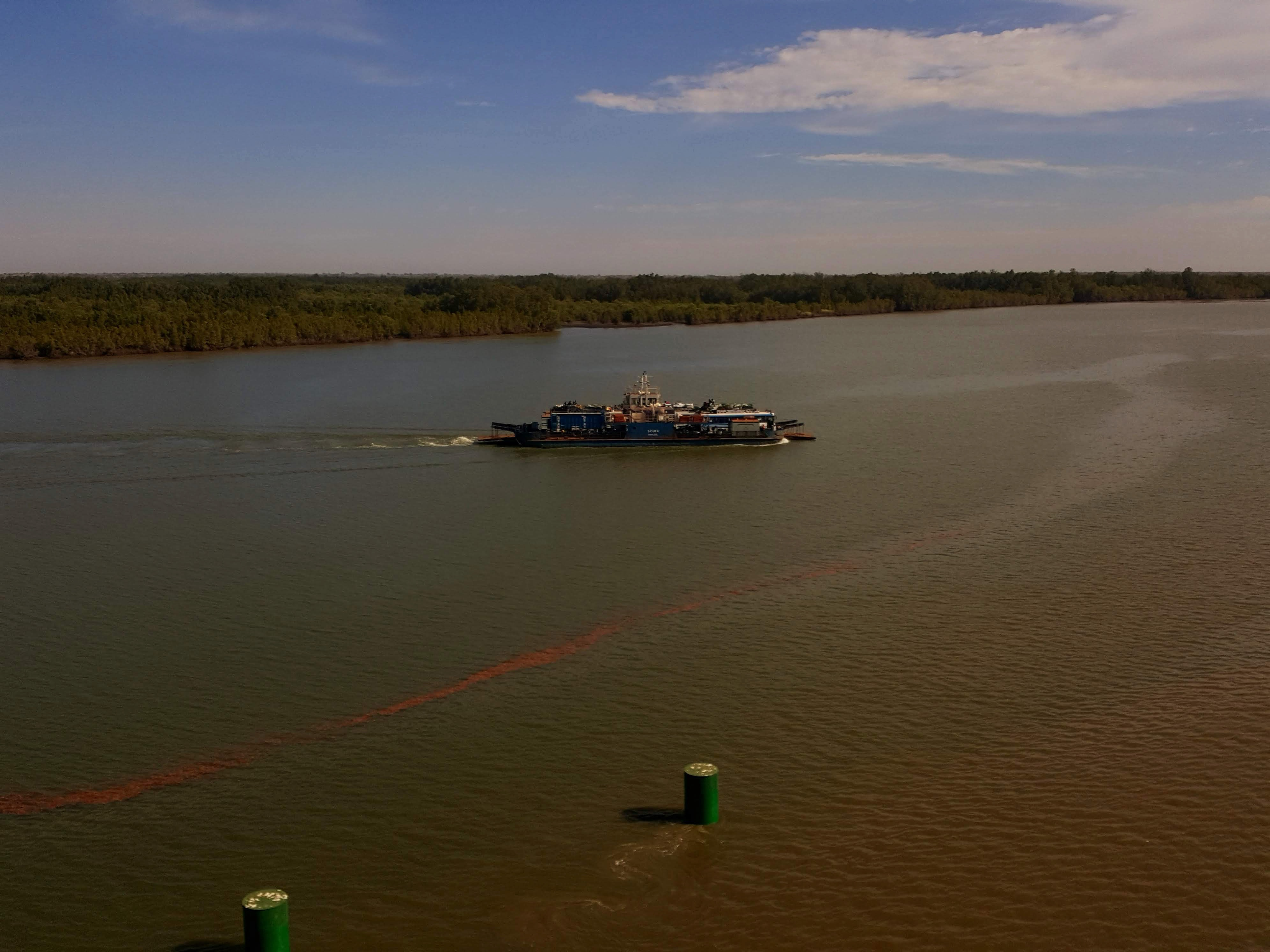 The vehicle ferry that will eventually be replaced by the Senegambia Bridge. It remains open through July 2019 to heavy vehicles.